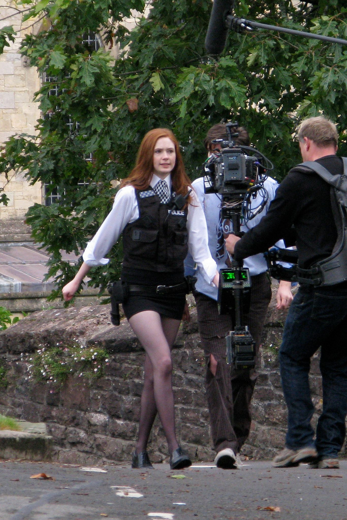 The Eleventh Doctor and Amy Pond